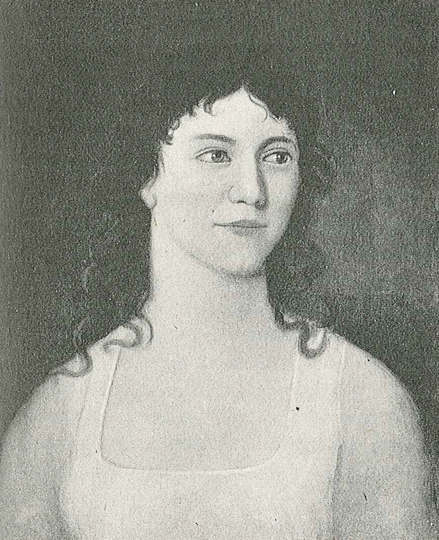 Anna Myhrman (1785-1853), the wife of Swedish poet, professor and bishop Esaias Tegnér. Painting from her youth by unknown artist (at least to the uploader).